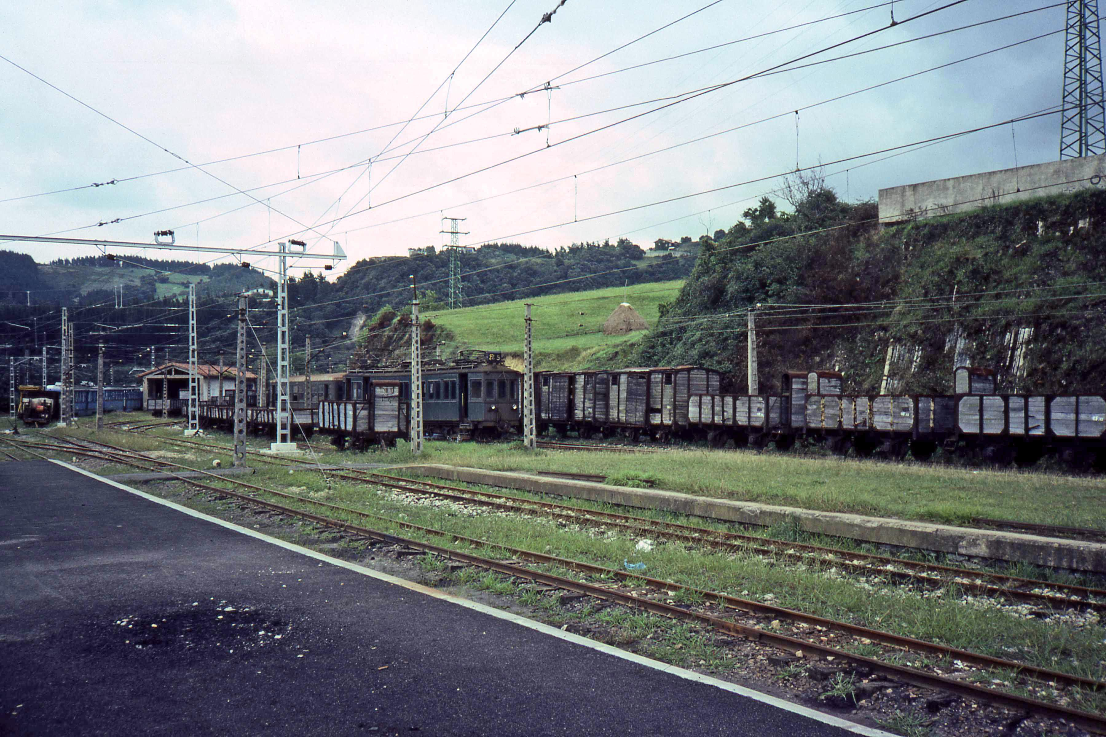 Station Zumaia of the Zumaia - Zumárraga line. (FC del Urola) Was in servive until 1986. Later a museumline was tried. Has not been part of the FEVE network and ET has never runs trains on it.